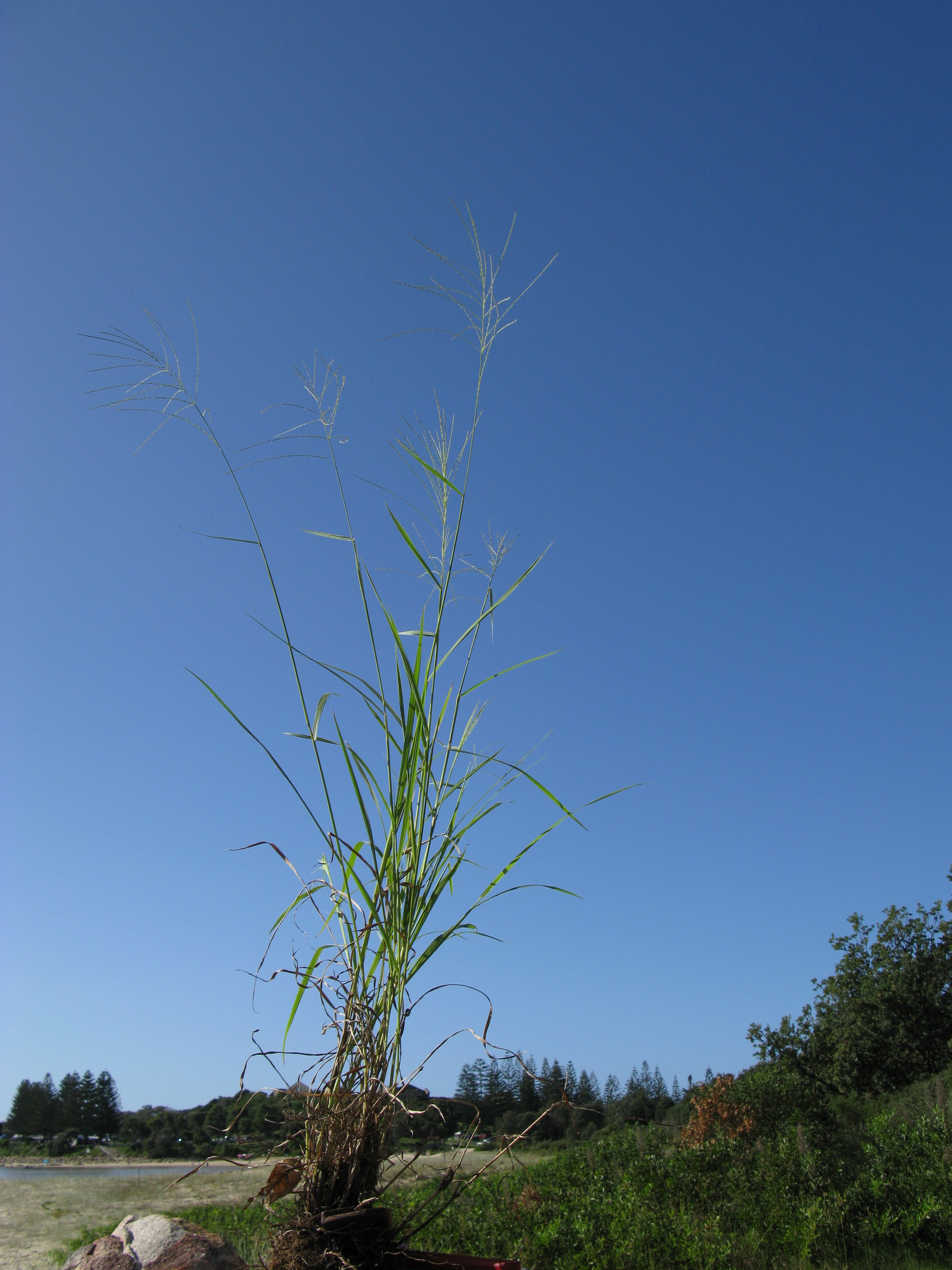 Erect, loosely tufted grass, 60-150 cm tall and somewhat hairy at the base. Mostly found in shaded areas of woodlands and forests. Occurs on sands to clays and in both disturbed and natural areas. Probably of little importance to livestock due to its low abundance in pastures and open areas. Declines rapidly with frequent grazing.